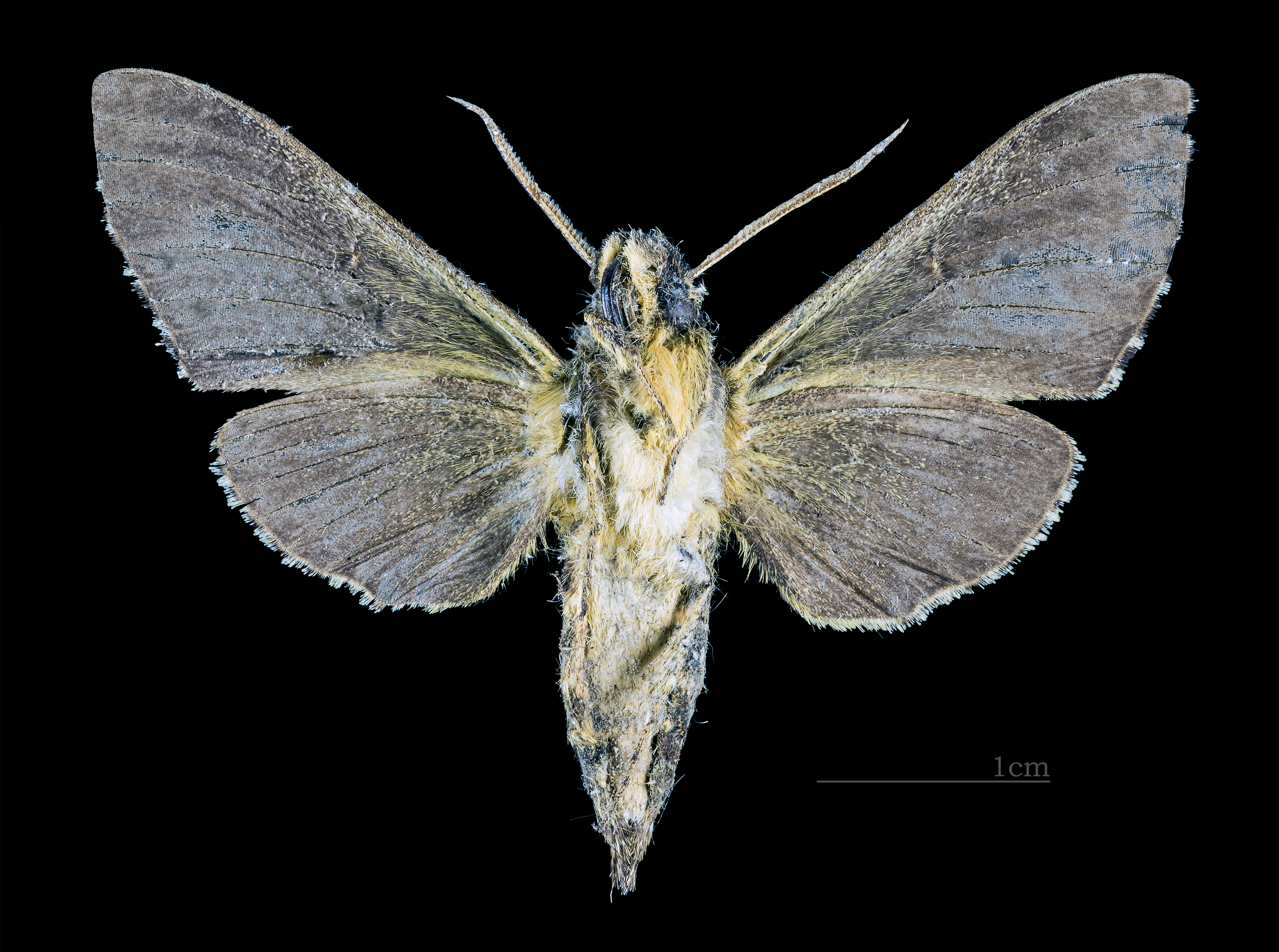 Pseudodolbina fo - △ Ventral side Collection of the Mathematician Laurent Schwartz